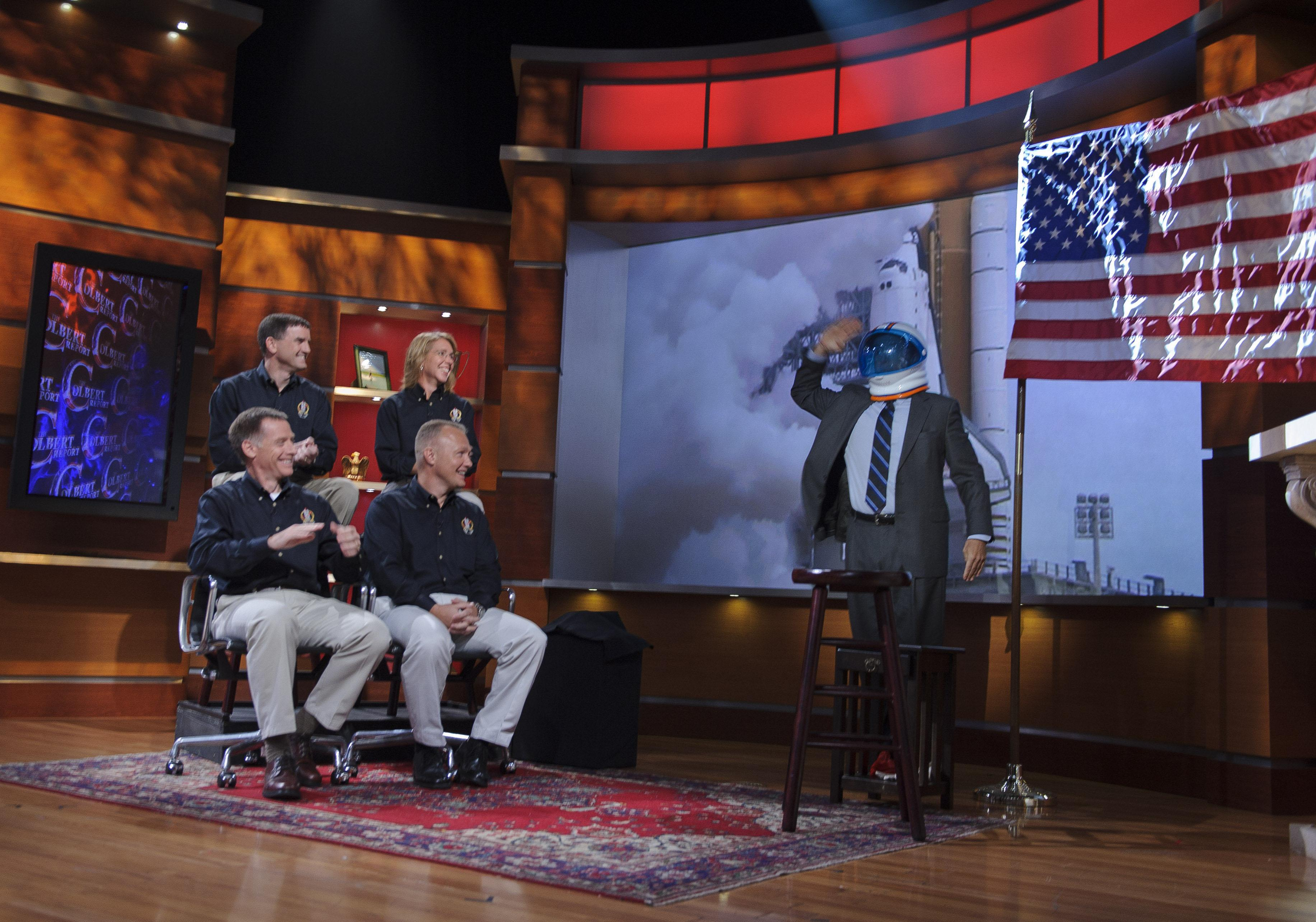 Stephen Colbert, host of The Colbert Report, salutes the crew of STS-135 during their appearance for a taping of his television show in New York. The astronauts from STS-135 are in New York for a three-day visit. Seated from lower left are Commander Chris Ferguson, pilot Doug Hurley, and mission specialists Sandy Magnus and Rex Walheim.